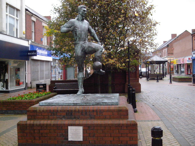 The statue of the Newcastle United and England footballer Jackie Milburn (1924-1988), located in Station Road, Ashington, Northumberland. Milburn was born in the town, and his statue now has pride of place in its main shopping street. One of three statues of Milburn in the north east region, this is the only one still in its original position, having been unveiled on 5 October 1995. See Statues of Jackie Milburn for full details.